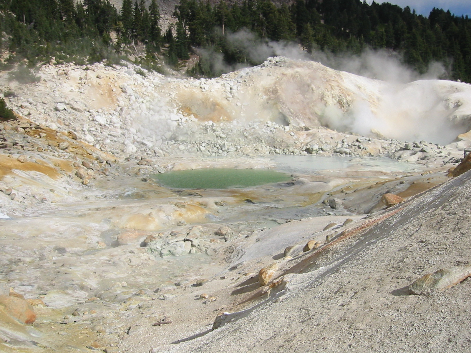 Bumpass Hell Description: Bumpass Hell hot springs. Viewpoint location: Short spur trail north from Bumpass Hell trail, Lassen Volcanic National Park. Viewpoint elevation: 8200' View direction: East northeast Camera